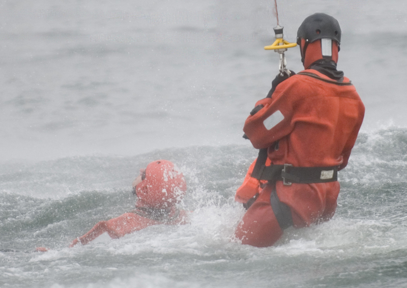 Danish navy rescue swimmers from a danish inspection vesselDansk: redningssvømmere fra et af søværnets inspektionsskibe